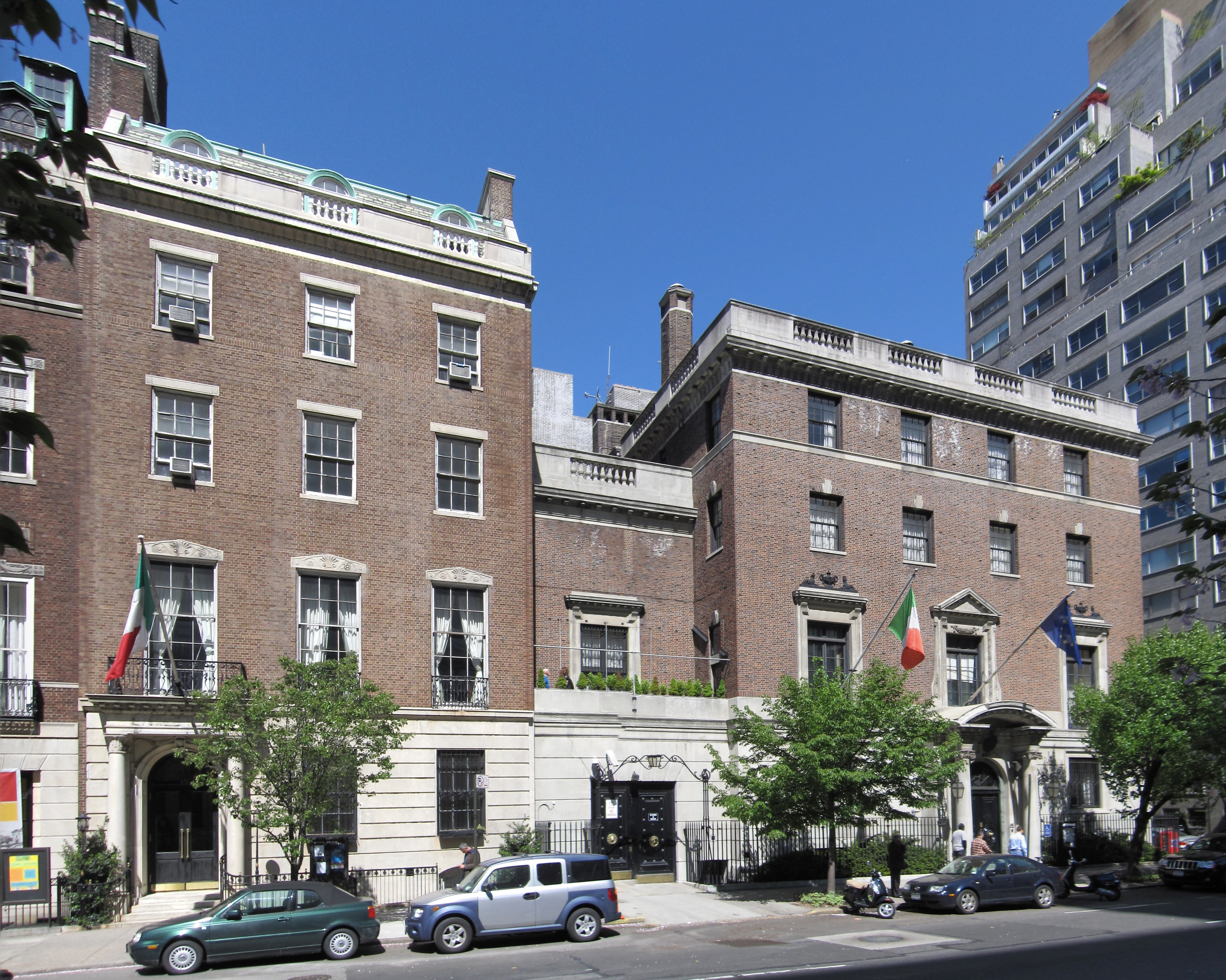 Italian Consulate General, New York